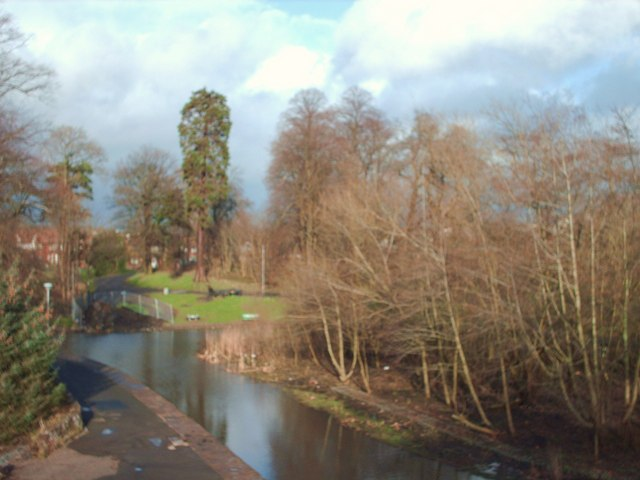 The Pond